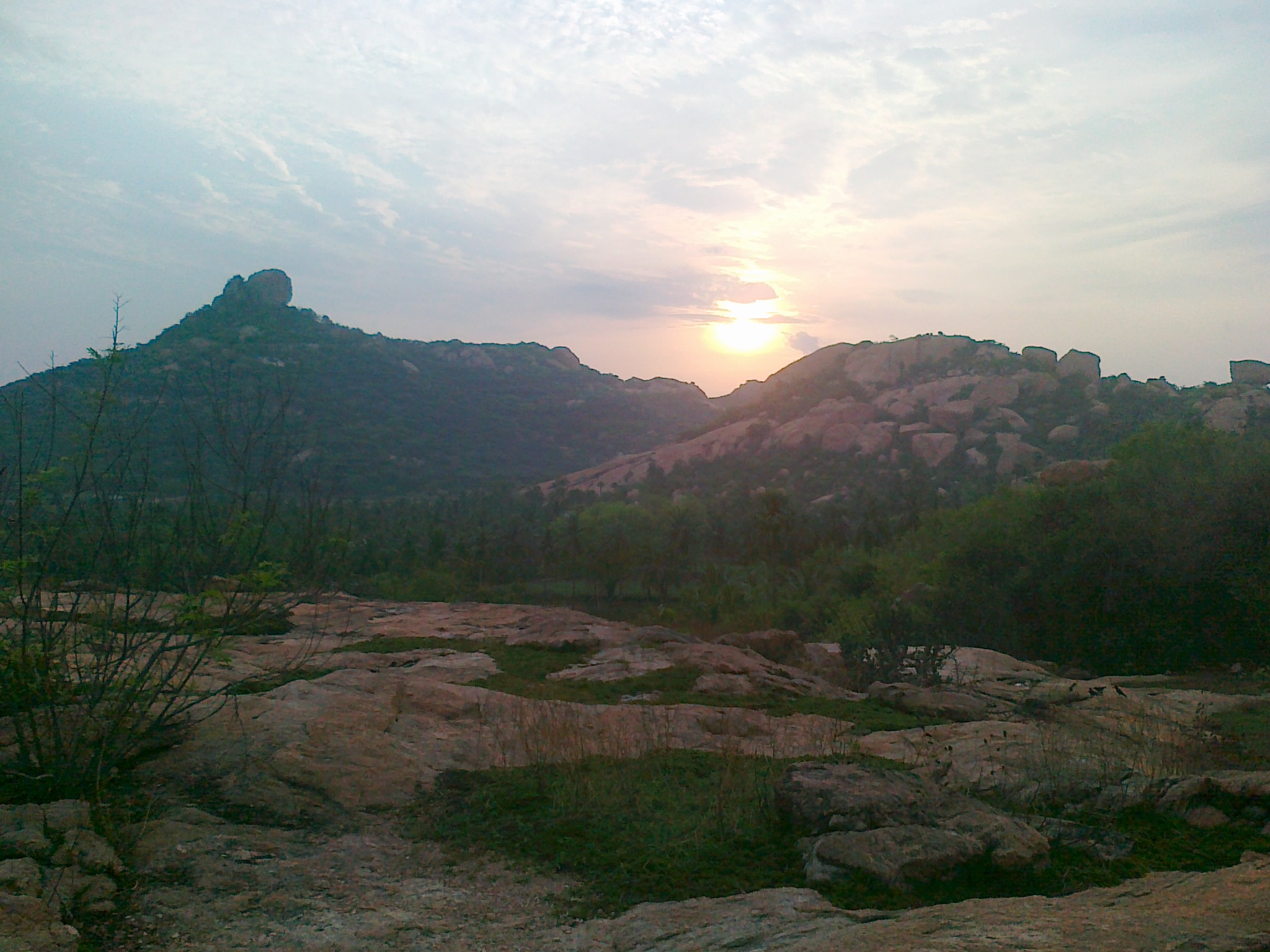 orukkamalai